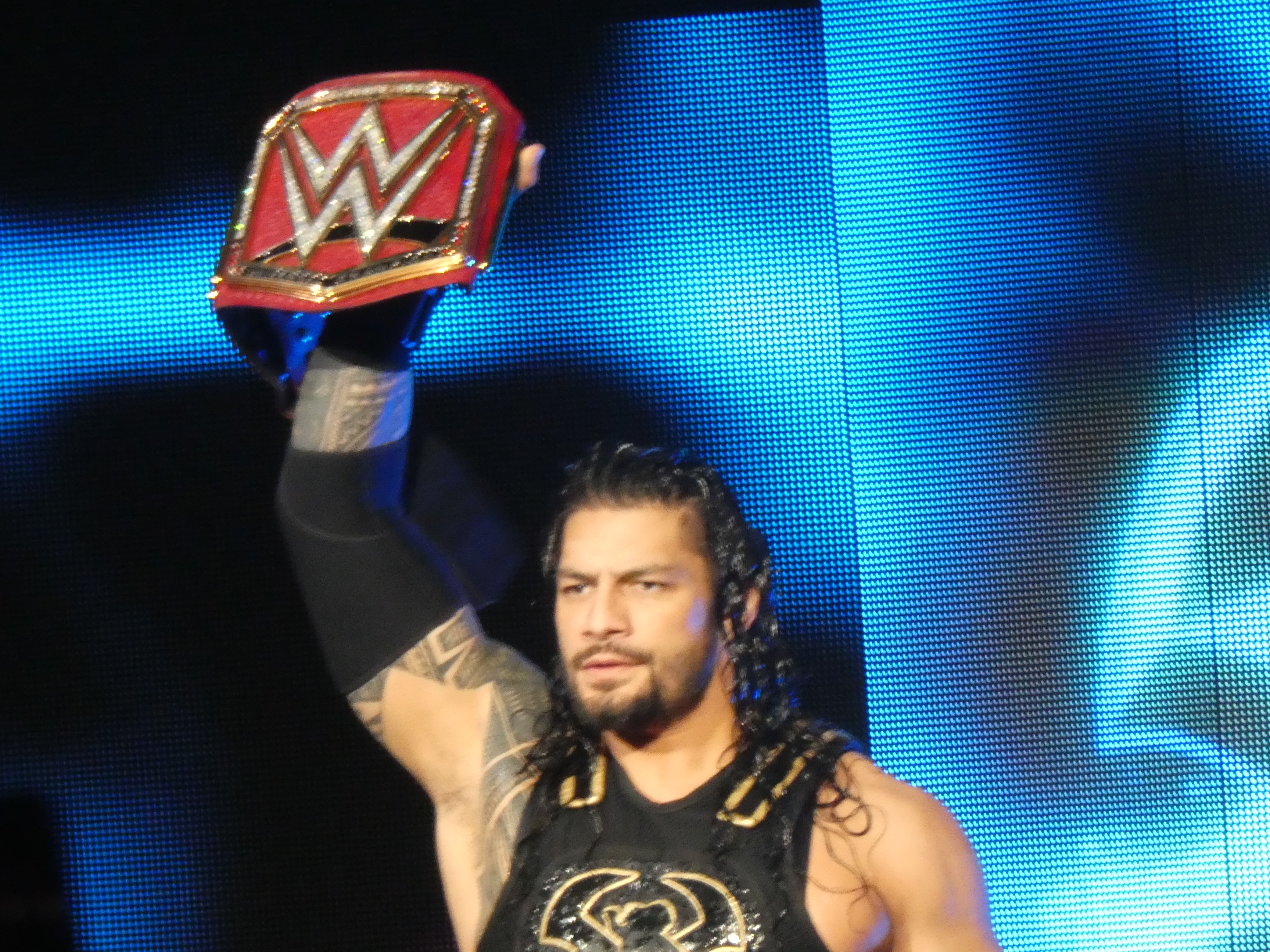 Professional wrestler Roman Reigns with the WWE Universal Championship